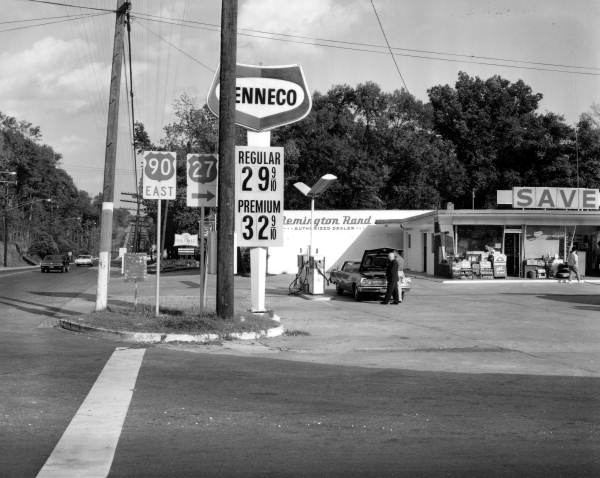 Tenneco Service Station - Tallahassee, Florida 1967. Looking east on Tennessee from Magnolia. Street. Photographed by Harvey Eugene Slade. Via [1]